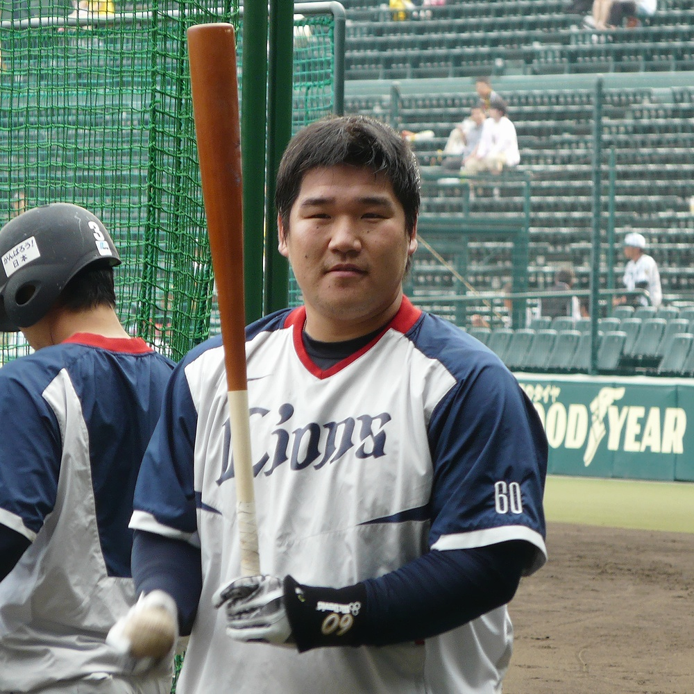 SL-Takeya-Nakamura20120528